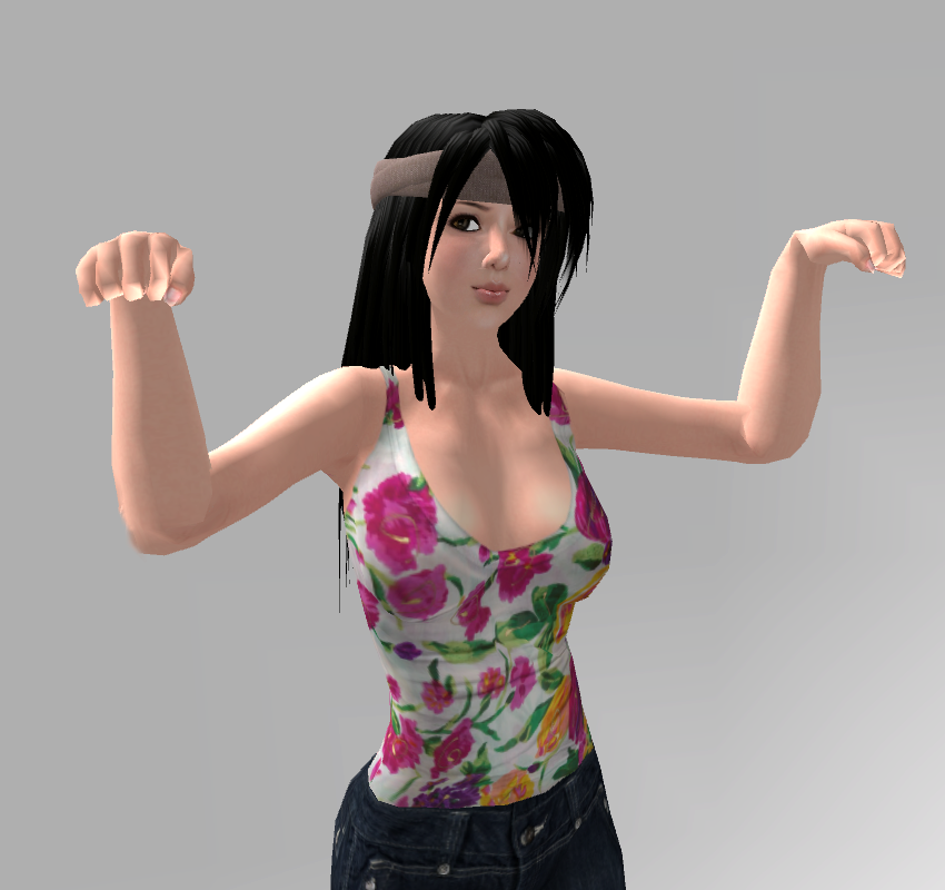 GaoGao Dance of Ayame Goriki (Japanese singer)